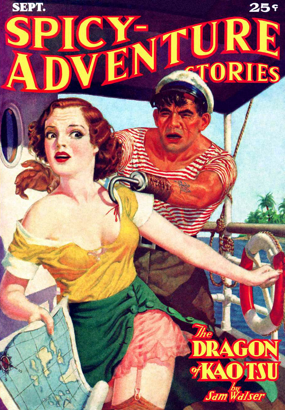 Cover of Spicy-Adventure Stories volume 4, number 6, September 1936. The cover story was written by Robert E. Howard under the pen-name "Sam Walser". PNG version of this file.